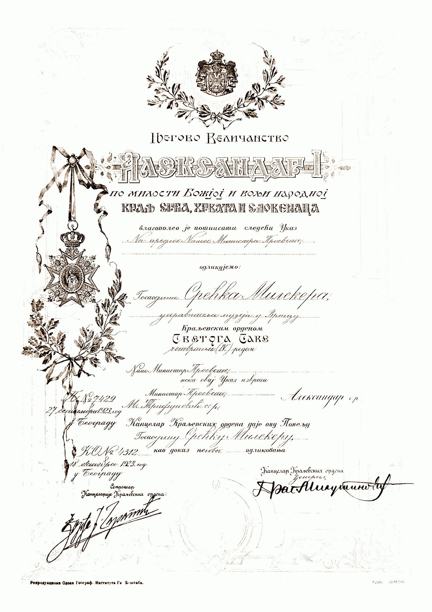 Archaeologist from Vršac Milleker Felix awarded for his work in 1923 by Serbian king, Alexander I of Yugoslavia Српски (ћирилица): Указ краља Александра I Карађорђевића да се археолог из Вршца Срећко Милекер за своје заслуге науци одликује орденом Светог Саве.